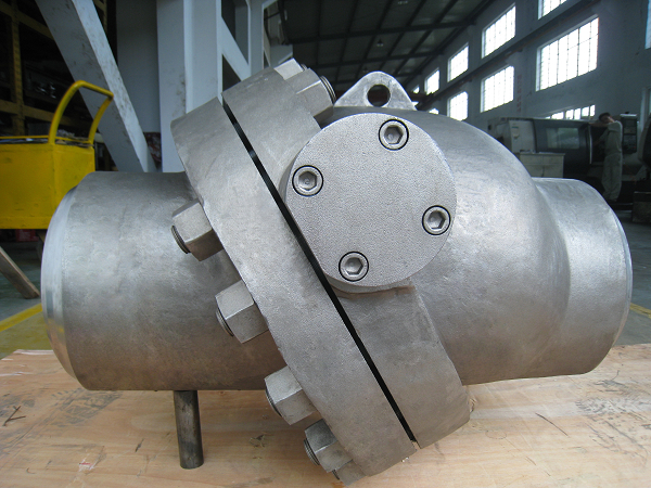 Tilting disc inconel check valve. Valves and are generally made of plastic or steel, the latter being the most widely used in chemical and petrochemical applications. Steel grades range from the most common type, namely carbon steel, with standard stainless steel being the second most common. Stainless steel alloys, which include nickel or copper are used in applications that require higher corrosion or heat resistance. In such cases, the most commonly used valve configurations -- ball valves, gate valves, check valves, globe valves and butterfly valves -- are often forged or cast as duplex valves, super duplex valves, alloy 20 valves, monel valves, inconel valves, incoloy valves and 254 SMO valves (6Mo valves). Titanium valves are also used in some highly corrosive applications. Titanium is not a stainless steel alloy.